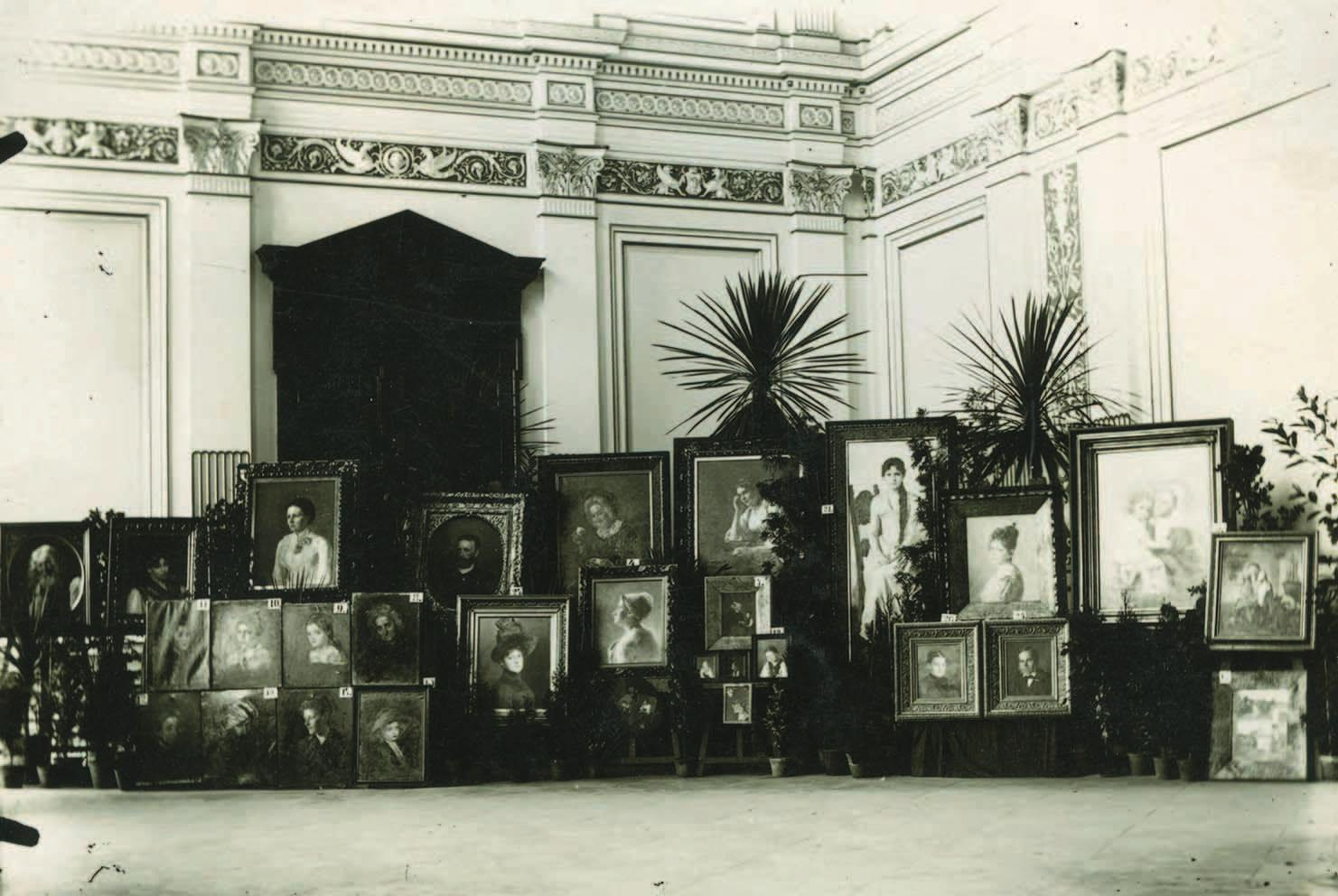 Photograph of the installation of the first solo exhibition of Ivana Kobilca at the Realka polytechnic secondary school in Ljubljana, 15-22 December 1889, National Gallery of Slovenia Photography Archive.